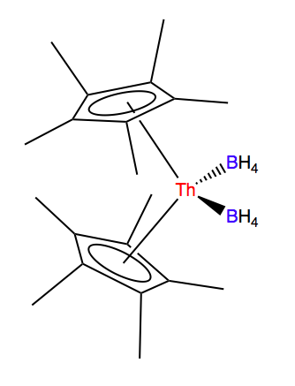 Structure of a thorium metallocene with borohydride substituents